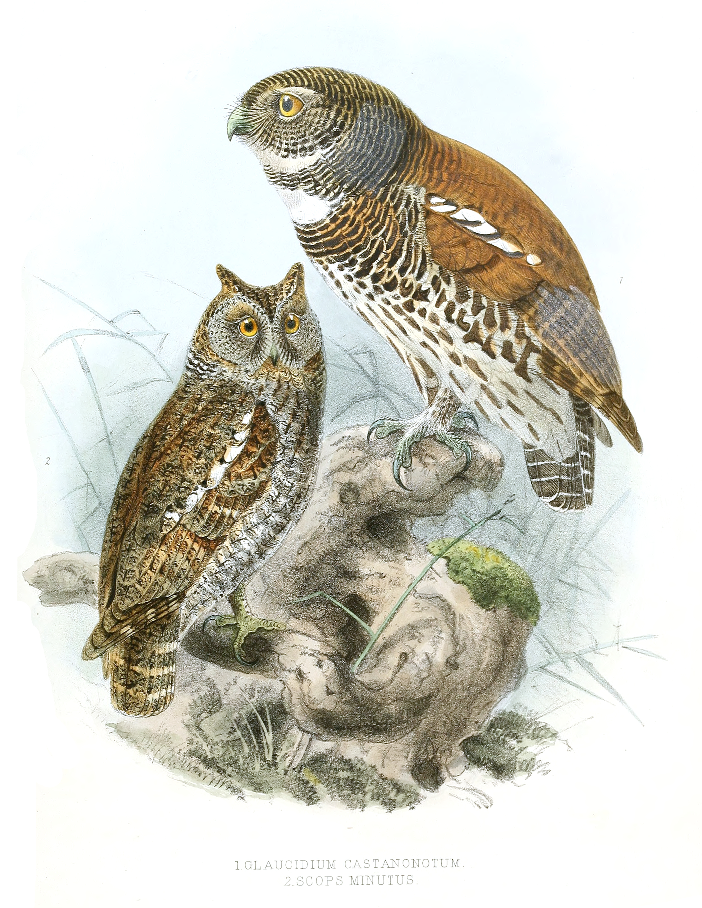 Glaucidium castanonotum and Otus sunia leggei